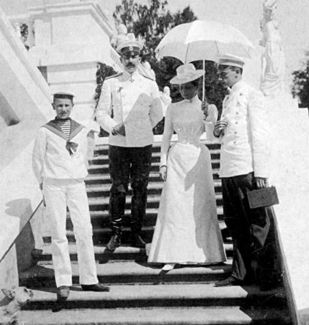 The Yusupov family in 1905: prince Felix Felixovich of Sumarokov-Elston, princess Zinaida Yusupova, prince Felix Yusupov and prince Nikolay Felixovich Yusupov